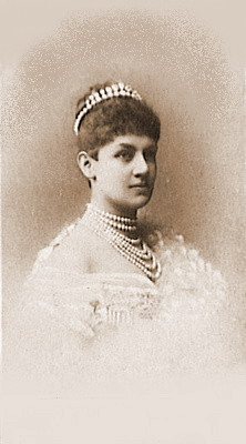 Charlotte of Schaumburg-Lippe, Queen consort of William II of Württemberg